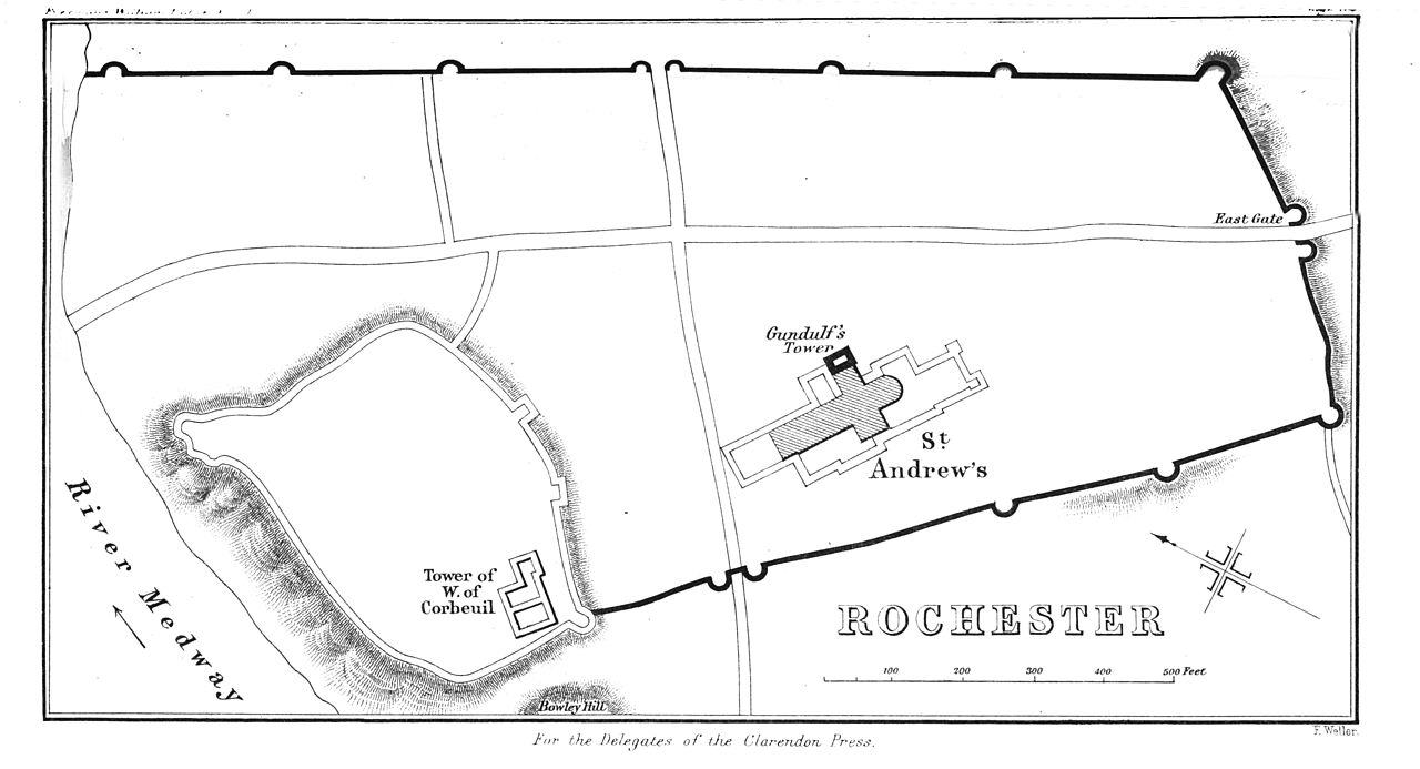 Map of the town of Rochester, England during the reign of King William II of England, c. 1090. Edited to remove noise